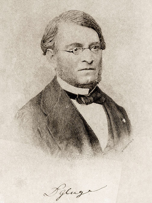 Picture of Gottlieb Gluge